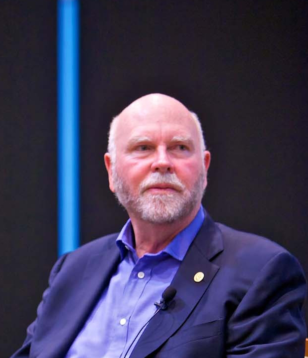 Photograph of Craig Venter, chemist, from Synthetic Genomics, at the T. T. Chao Symposium on Innovation, held at Rice's BioScience Research Collaborative, October 28, 2011, by Chemical Heritage Foundation, Philadelphia, PA, USA.